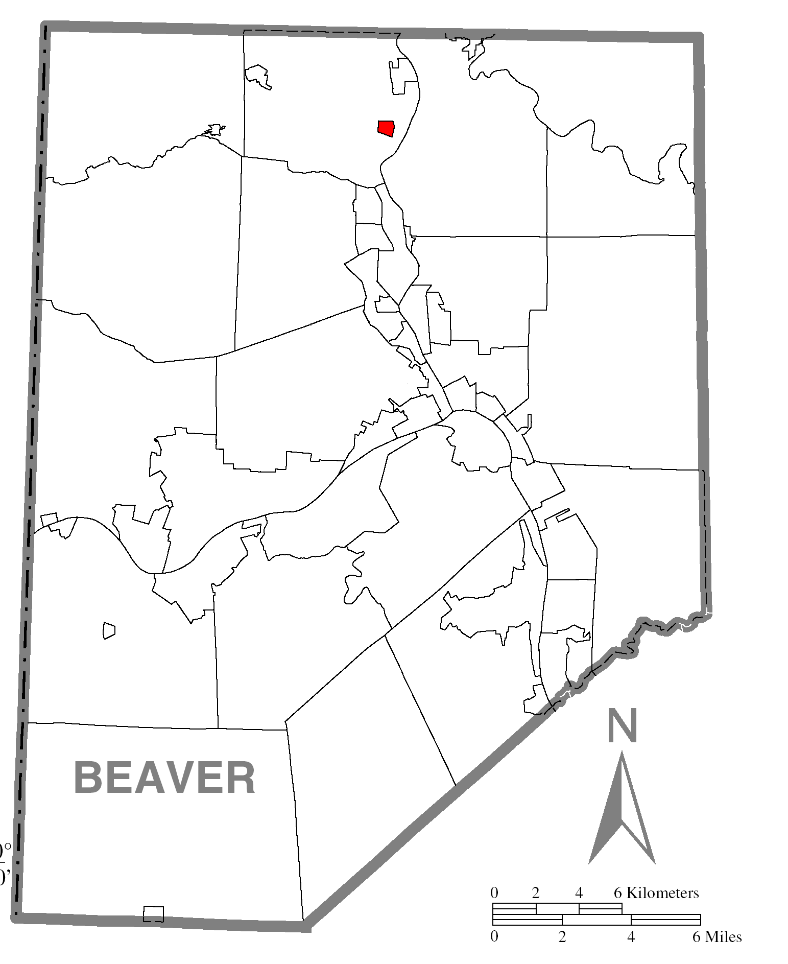 A map of Beaver County showing Homewood, Pennsylvania (alternate) highlighted on the map.